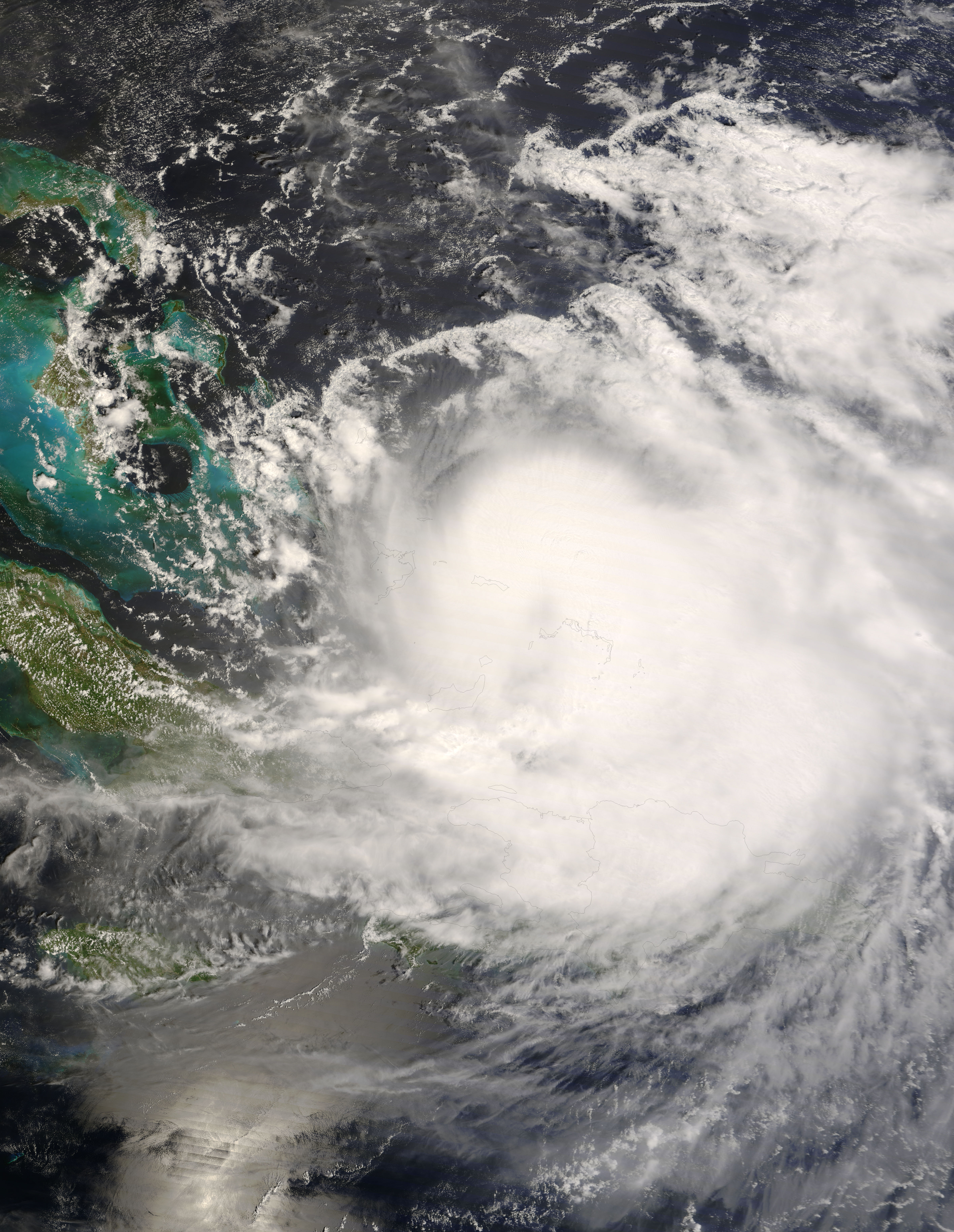 Hurricane Hanna in the Atlantic ocean on September 1, 2008.